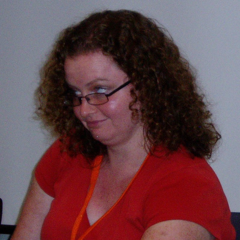 Kimberlee Weatherall